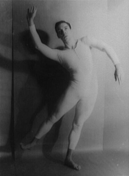 Title: Portrait of Paul Taylor, in Episodes, New York City Ballet Abstract/medium: 1 photographic print : gelatin silver.